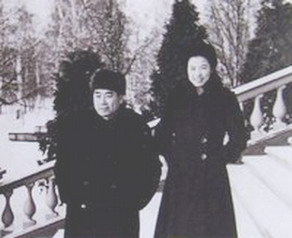 Sun Weishi Zhou Enlai in Moscow.孙维世与养父周恩来